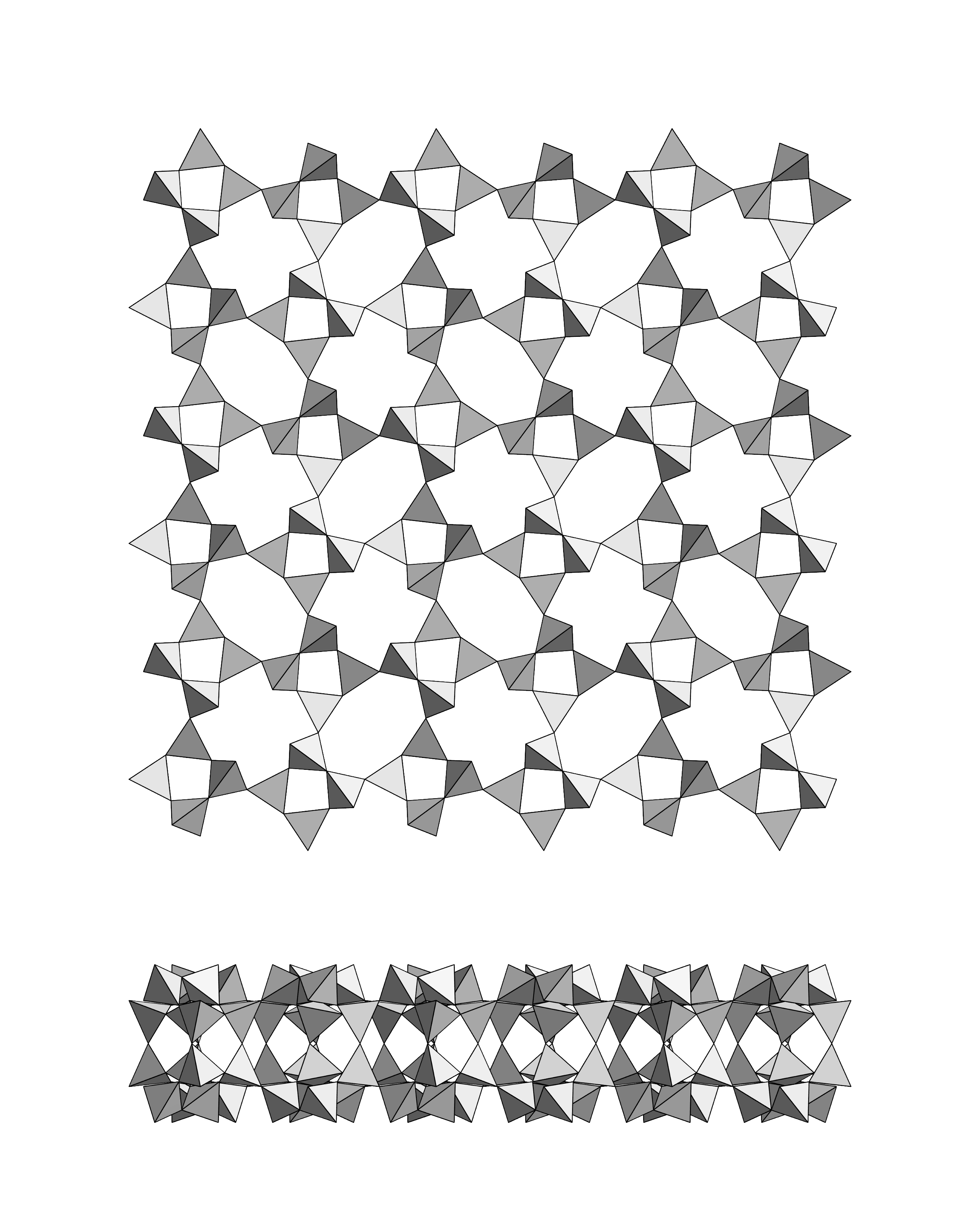 Carletonite sheet Data from: Chao G. Y. (1972): The crystal structure of carletonite, KNa4Ca4Si8O18(CO3)4(F,OH).H2O, a double-sheet silicate, American Mineralogist 57, pp. 765-778 Calculation of image data: Larry W. Finger, Martin Kroeker, and Brian H. Toby, DRAWxtl, an open-source computer program to produce crystal-structure drawings, J. Applied Crystallography V40, pp. 188-192, 2007 Rendering: POVRAY